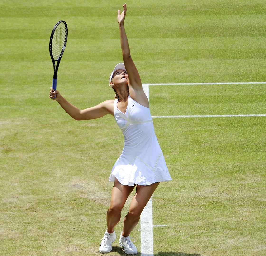 Maria Sharapova against Gisela Dulko in the 2009 Wimbledon Championships second round